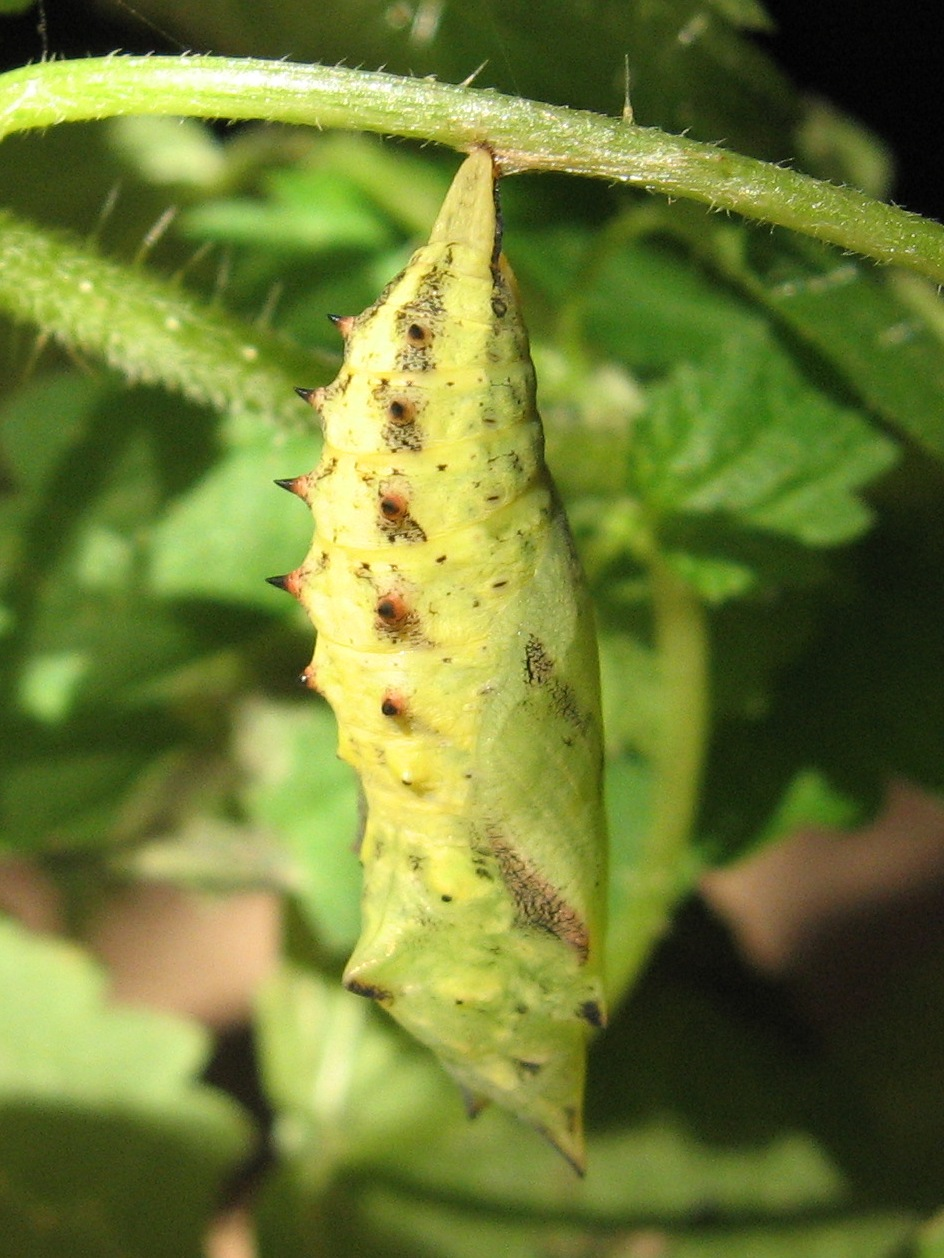 Peacock of Inachis io